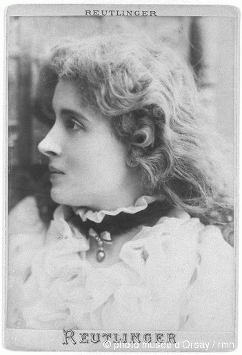 French actress Jeanne de Marsy.